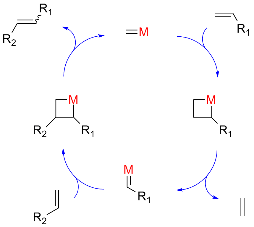 simple mechanism for olefin metathesis reactions. previous mechanism mislabeled R1 and R2 in olefin product